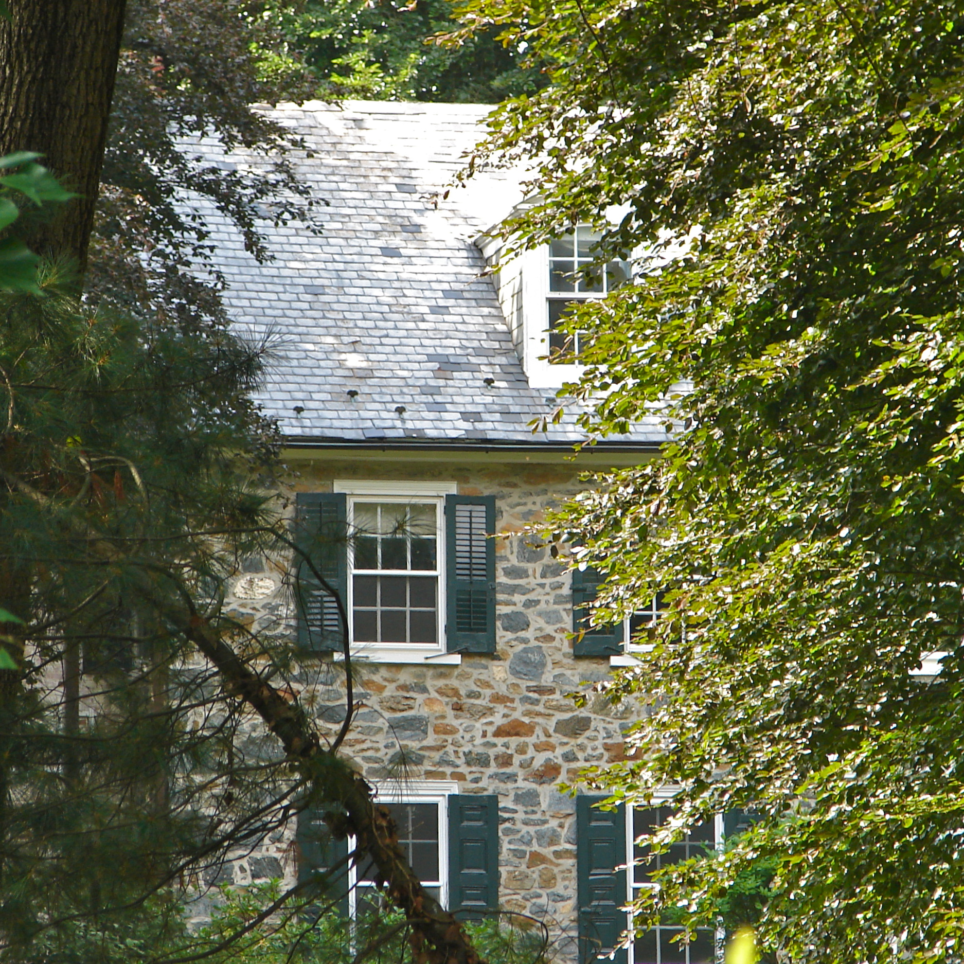 Joseph Chandler House on the NRHP since April 13, 1983. At 5826 Kennett Pike, best accessed by the PUBLIC roadway Chandler Lane, in Centreville, Delaware. The man who represented himself as the owner of the house was one of the biggest jerks I've met in a very long time, threatening to call the police to arrest me for being on Chandler Lane, after I asked his permission to photograph the house.